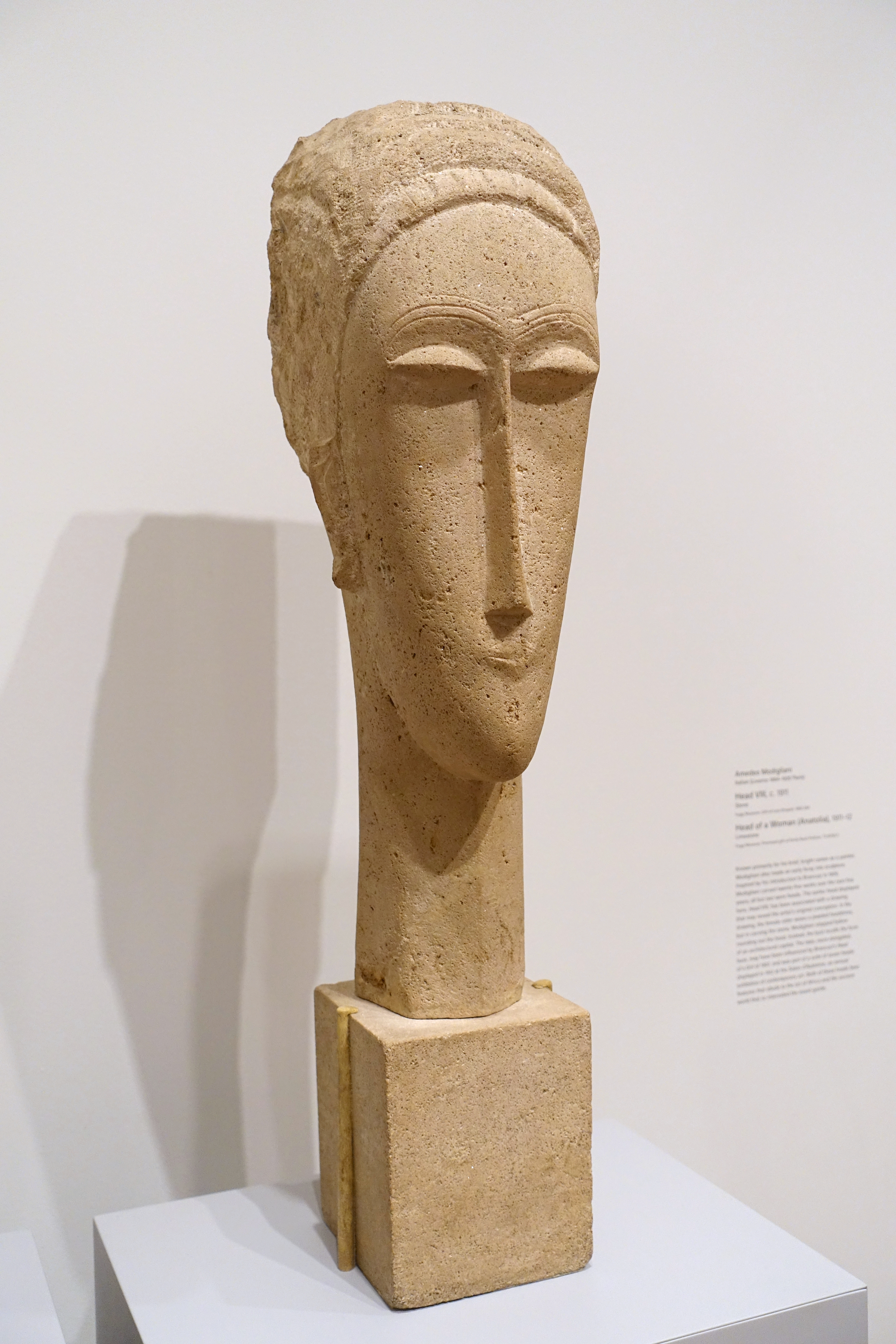 Exhibit in the Fogg Art Museum, Harvard University, Cambridge, Massachusetts, USA. This artwork is in the public domain because the artist died more than 70 years ago.